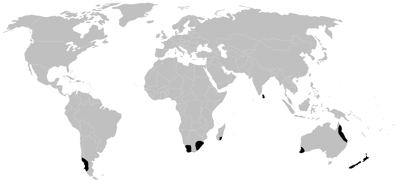 World distribution of harvestman family Pettalidae, after Pinto-da-Rocha et al. 2007: 79.